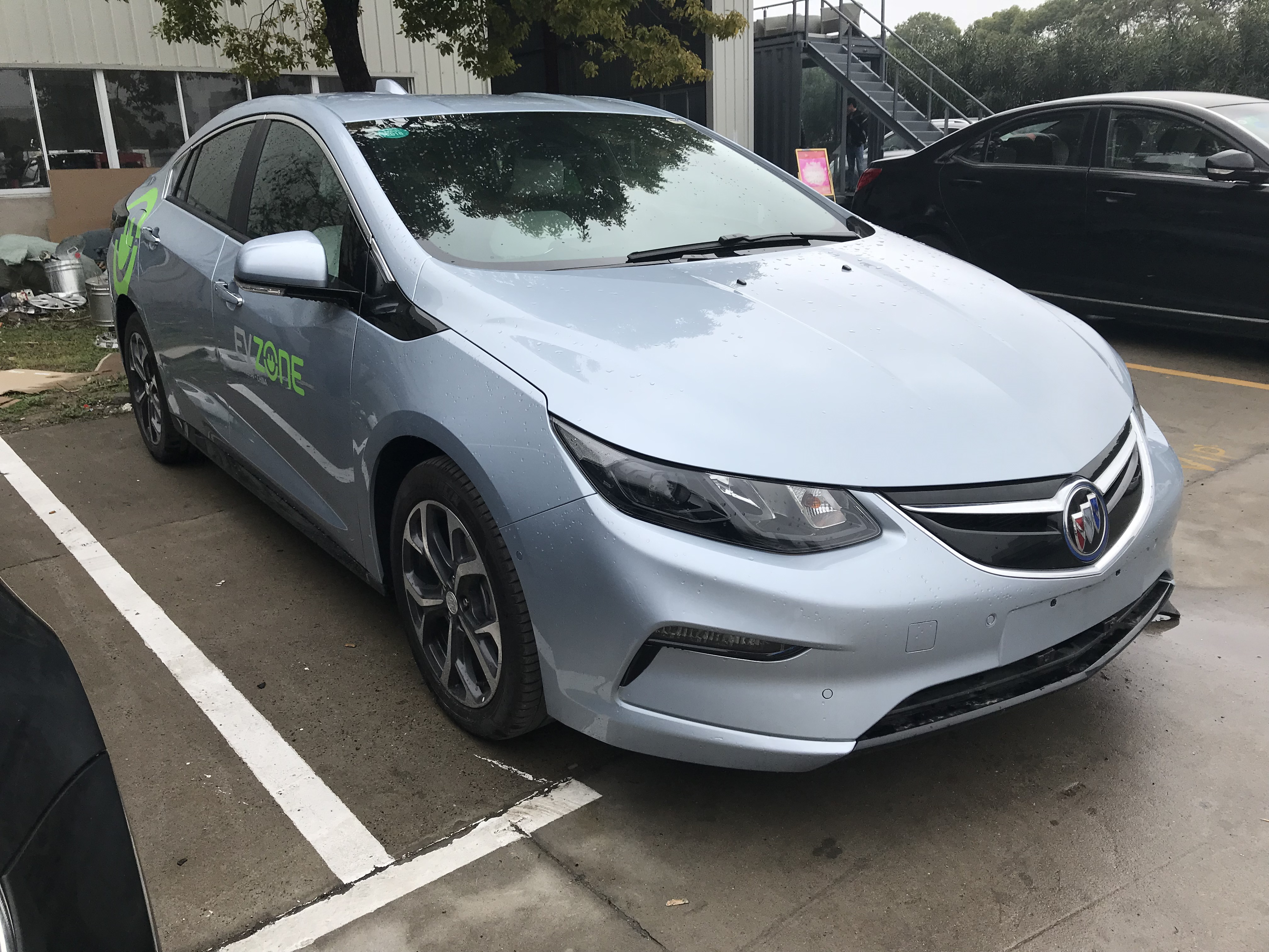 Buick Velite 5 EVCARD.